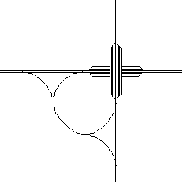 schema of a junction line connecting the two crossing lines